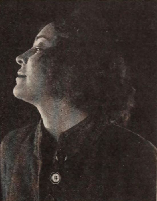 Still from the American serial film Fantômas (1920) with Eve Balfour (1895 - ?), on page 77 of the November 13, 1920 Exhibitors Herald.